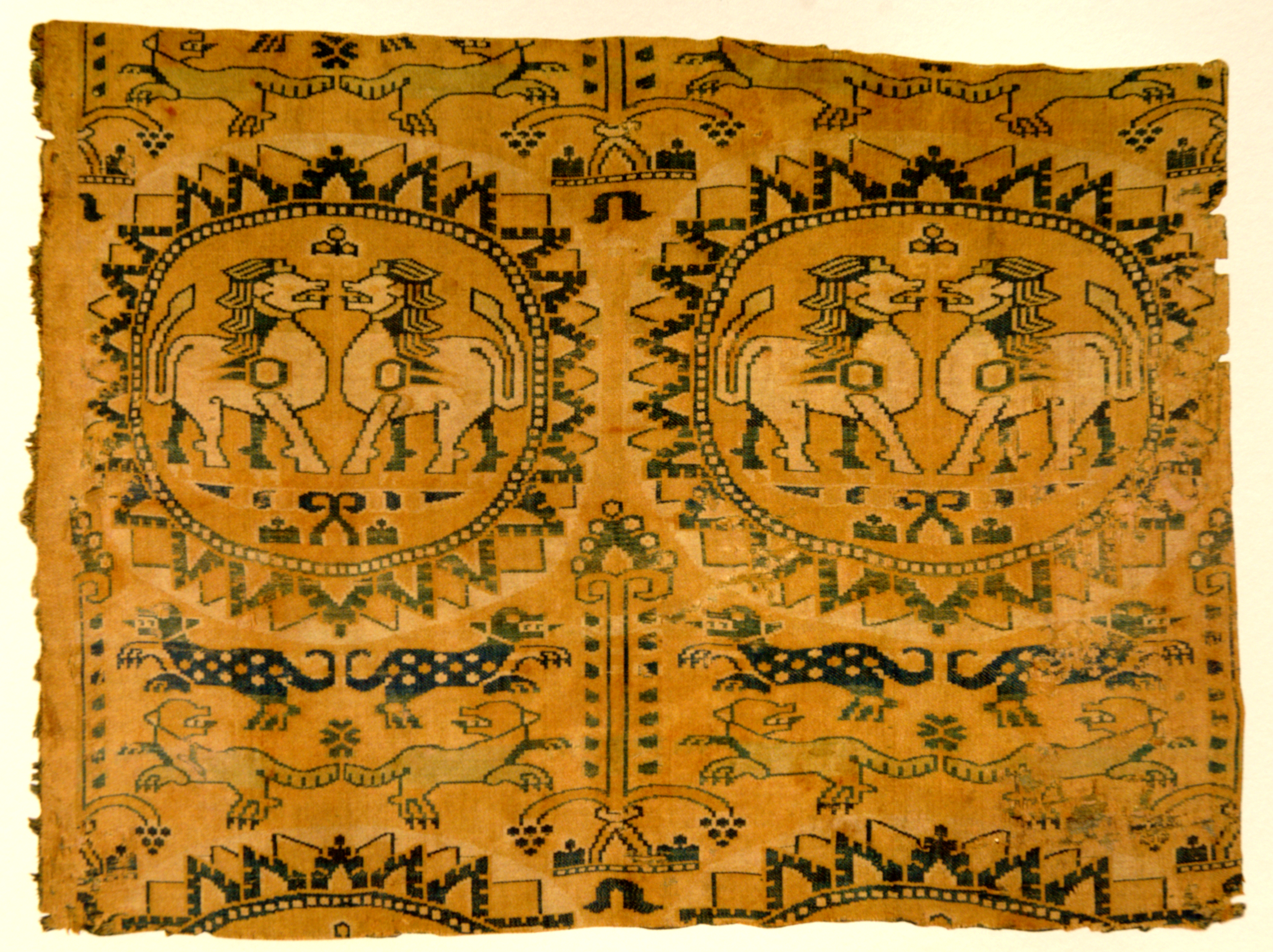 Lions, Sogdian polychrome silk, Central Asia. Probably from Bukhara, Uzbekistan. 46 x 62 cm.